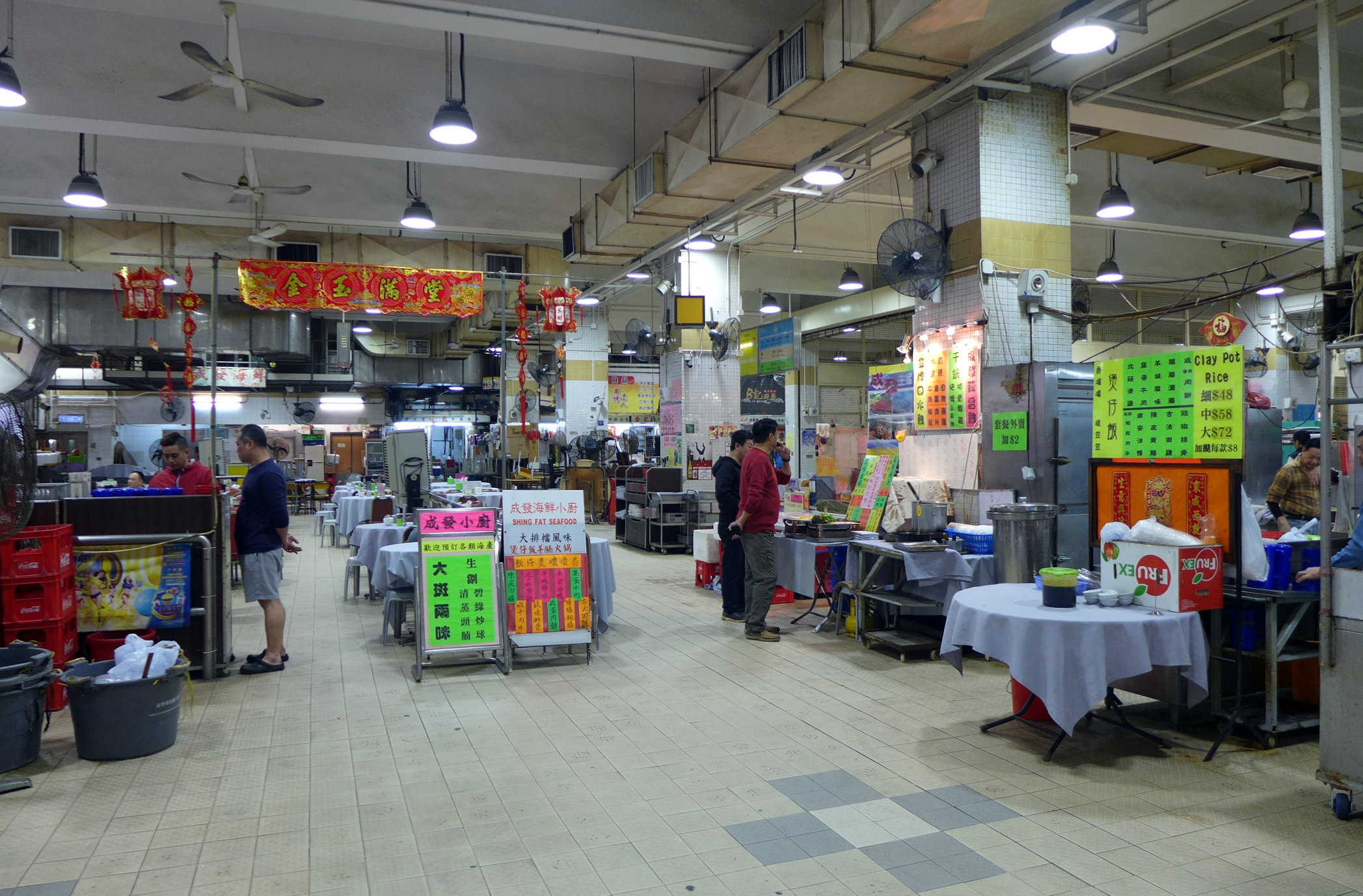 Shek Tong Tsui Municipal Services Building Food Centre